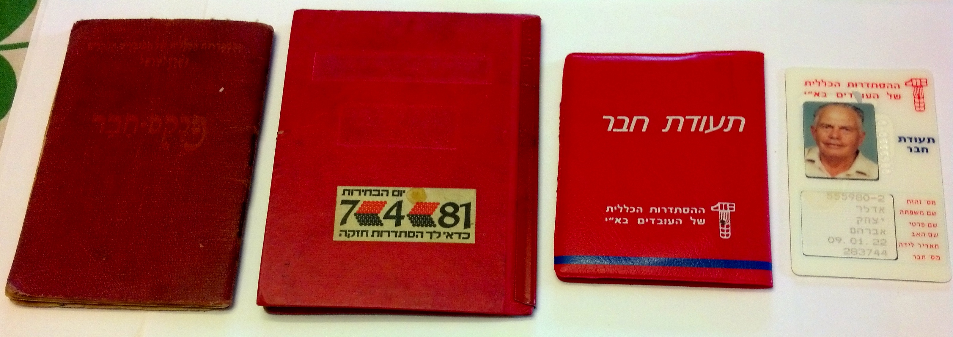 Histadrut folder membership till 1949